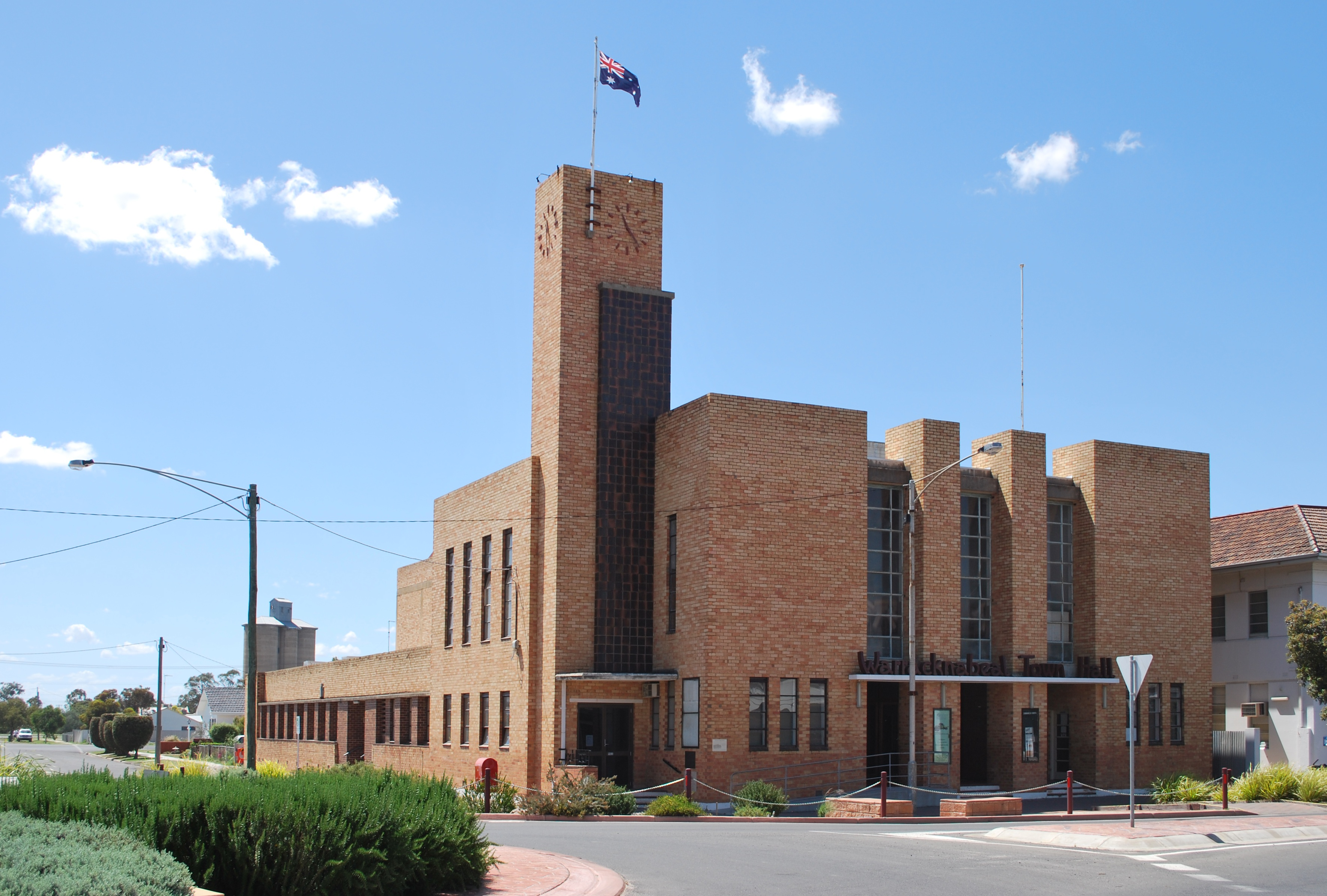 Town Hall at Warracknabeal, Victoria